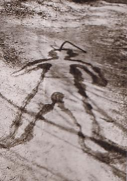 Korean Folk medicine (against headache)